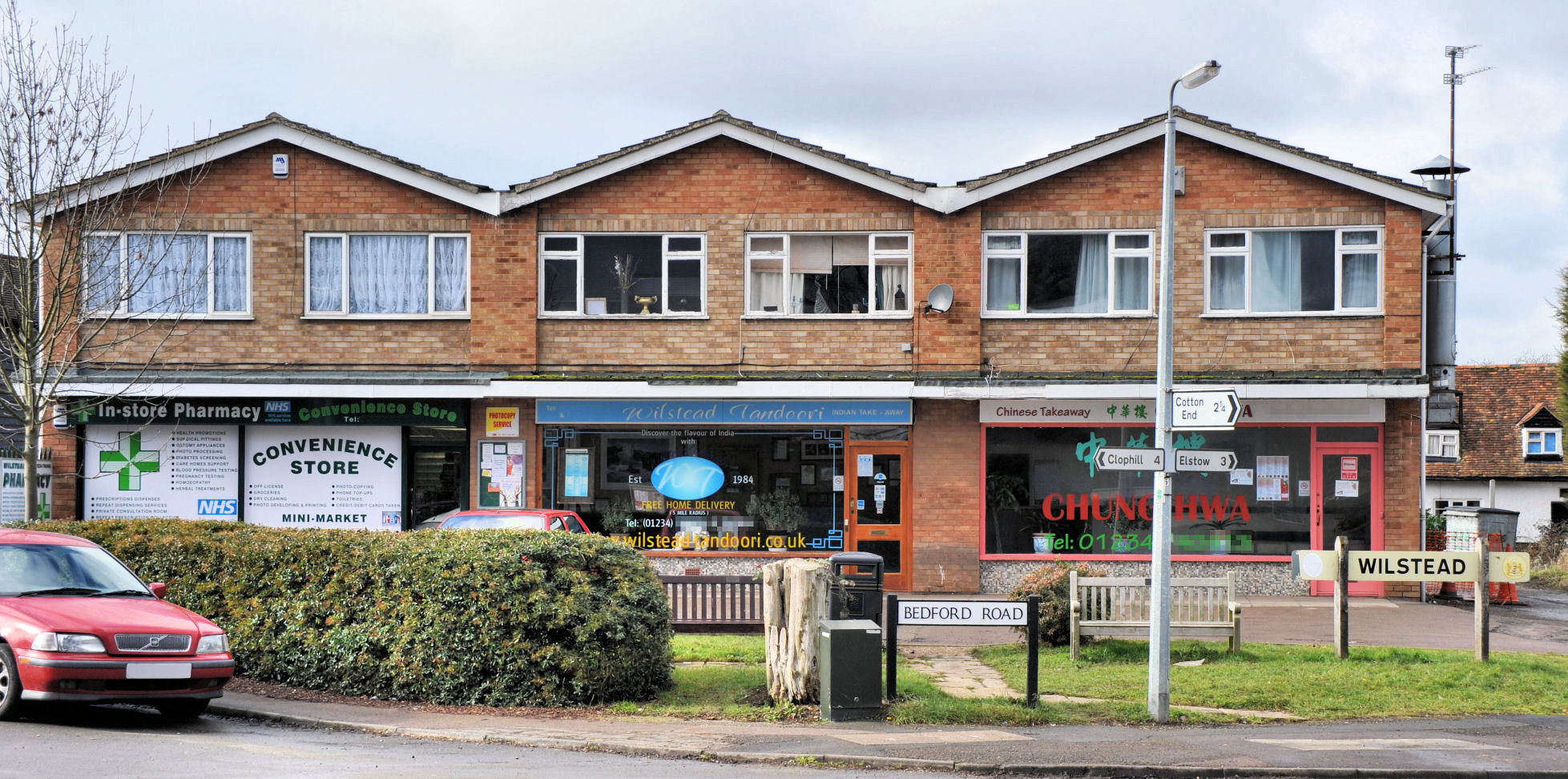 Small parade of shops at the centre of Wilstead, Bedfordshire, UK. Close by are two pubs, The Woolpack and The Red Lion.